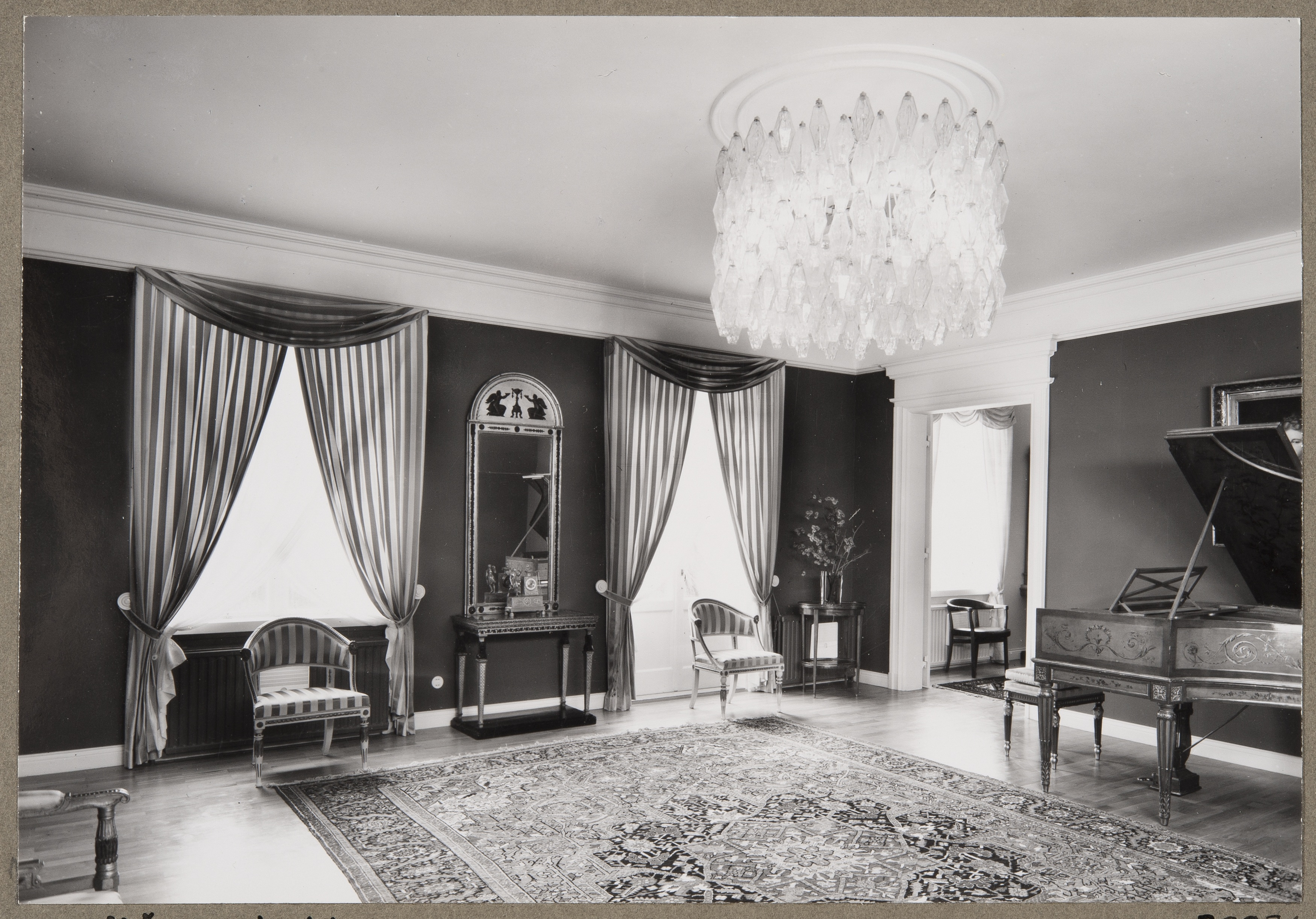 Interior of Königstedt Manor in Helsingin maalaiskunta (now Vantaa), Finland.